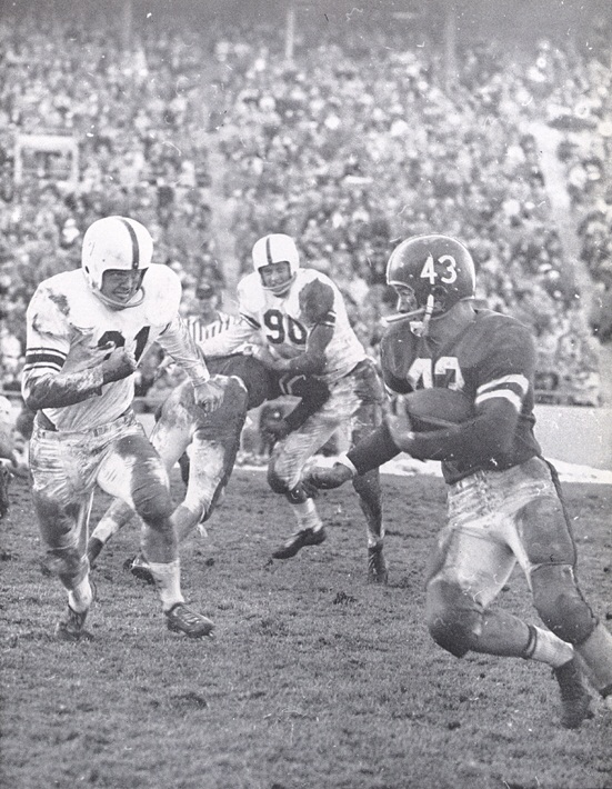 Nerbraska Cornhuskers football halfback Larry Naviaux